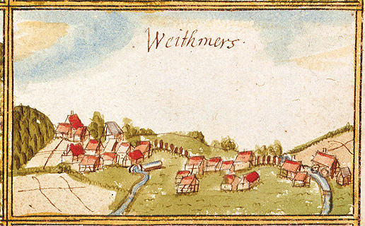 View of Weitmars, Waldhausen, Lorch, from the forest register books created by Andreas Kieser